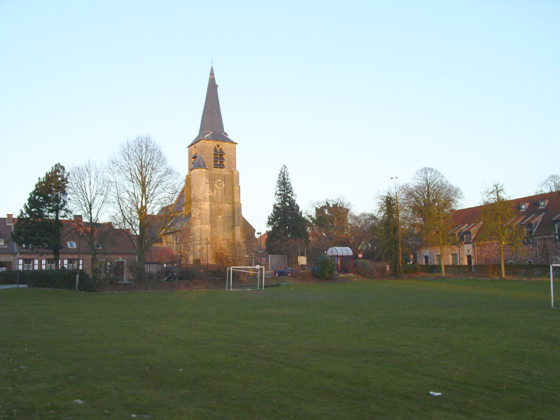 Church and village green in the village of Kobbegem, in the municipality of Asse. Photograph taken by David Edgar.